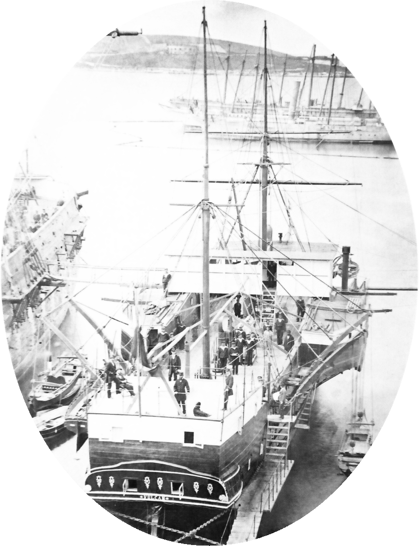 The paddle steamer SMS Vulcan of the Austro-Hungarian Navy at the naval base in Pula